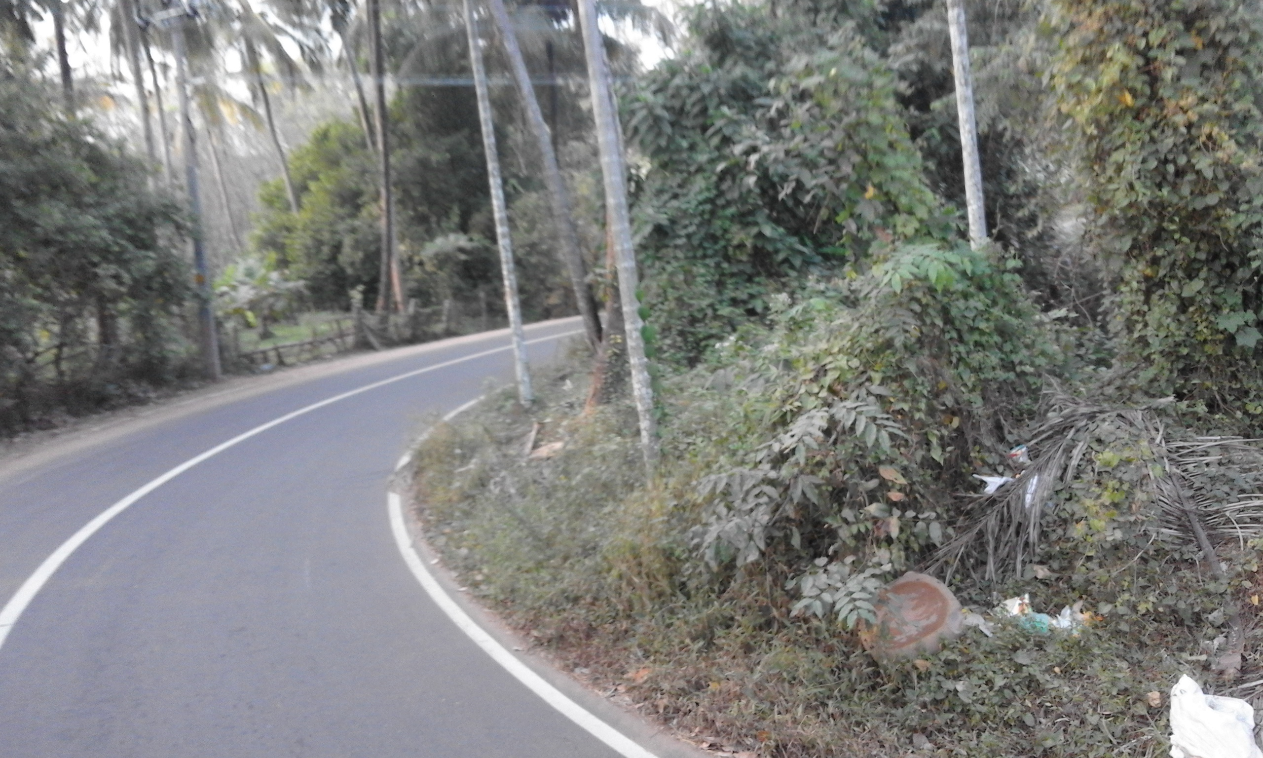 Chaliyar Grama Panchayath, Nilambur, Malappuram District, Kerala, India.